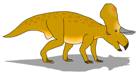 Sketch of the ceratopsian Zuniceratops from New Mexico of the Mid Cretaceous period